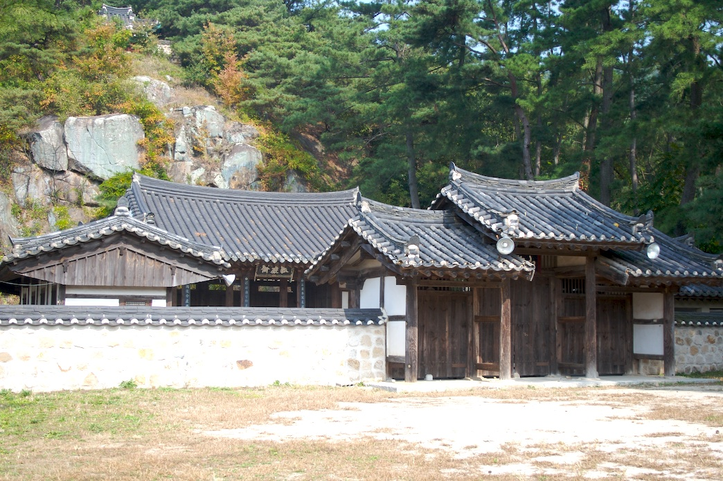 Pyoamjae, Gyeongju Yi clan's shrine located in Dongnam-dong, Gyeongju, North Gyeongsang province, South Korea